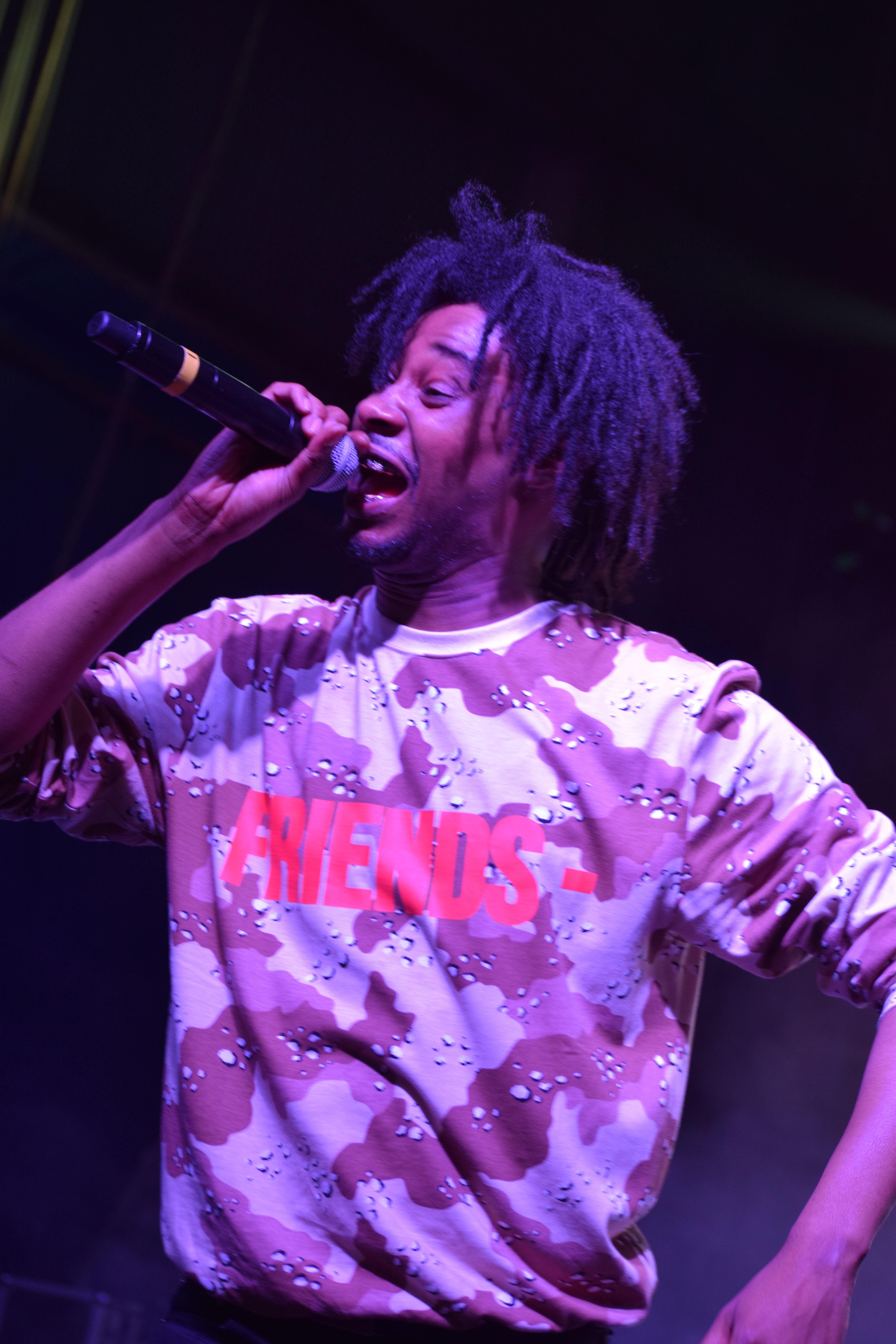 Danny Brown performing live in 2016.